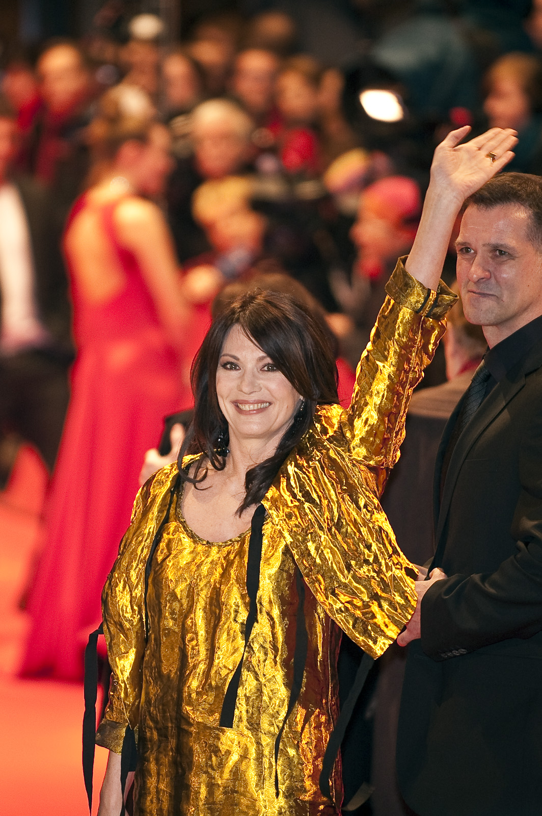 Iris Berben (German actress); arrival for the opening of the 59th Berlin International Film Festival